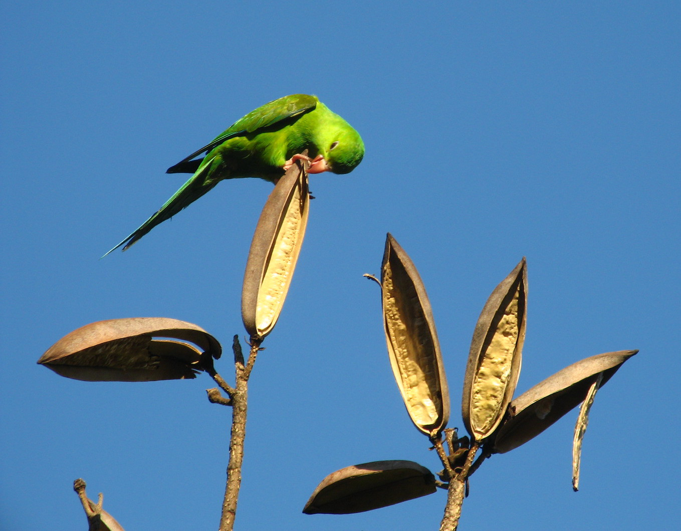 Plain Parakeet (Brotogeris tirica) in Brazil, on Spathodea campanulata open fruits